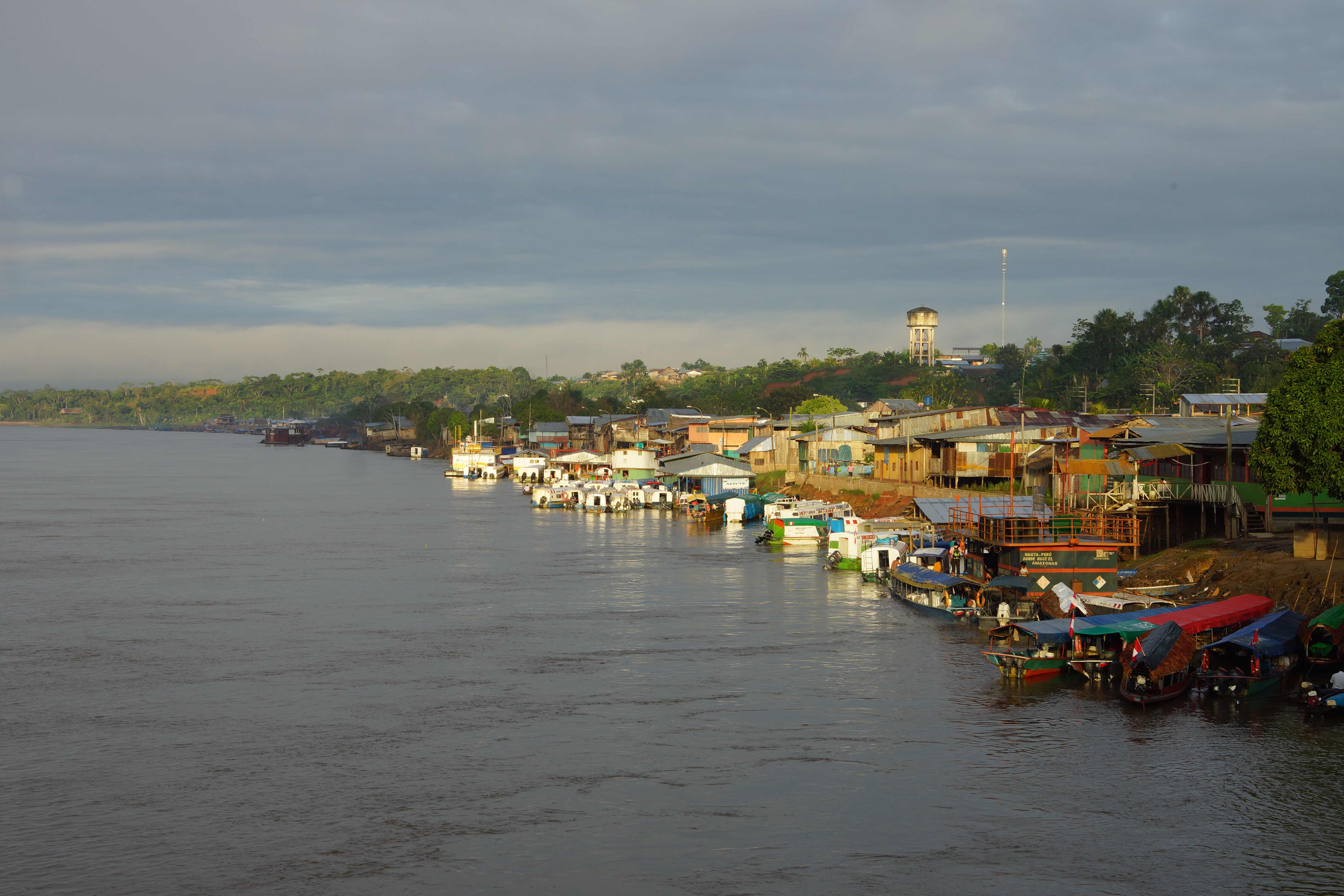 Nauta, City on the banks of the river Marañón, Loreto, Perú